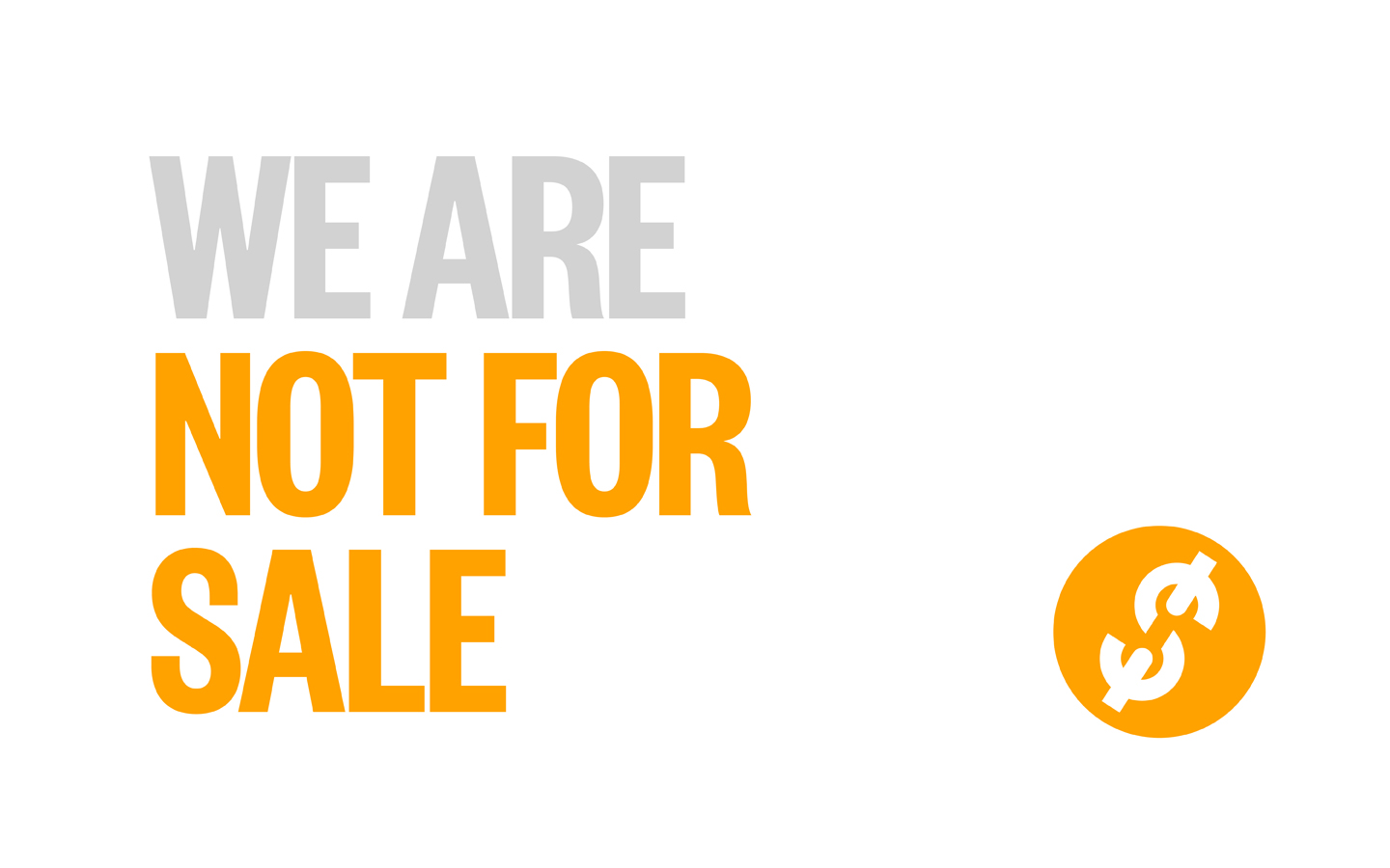 Not For Sale logo